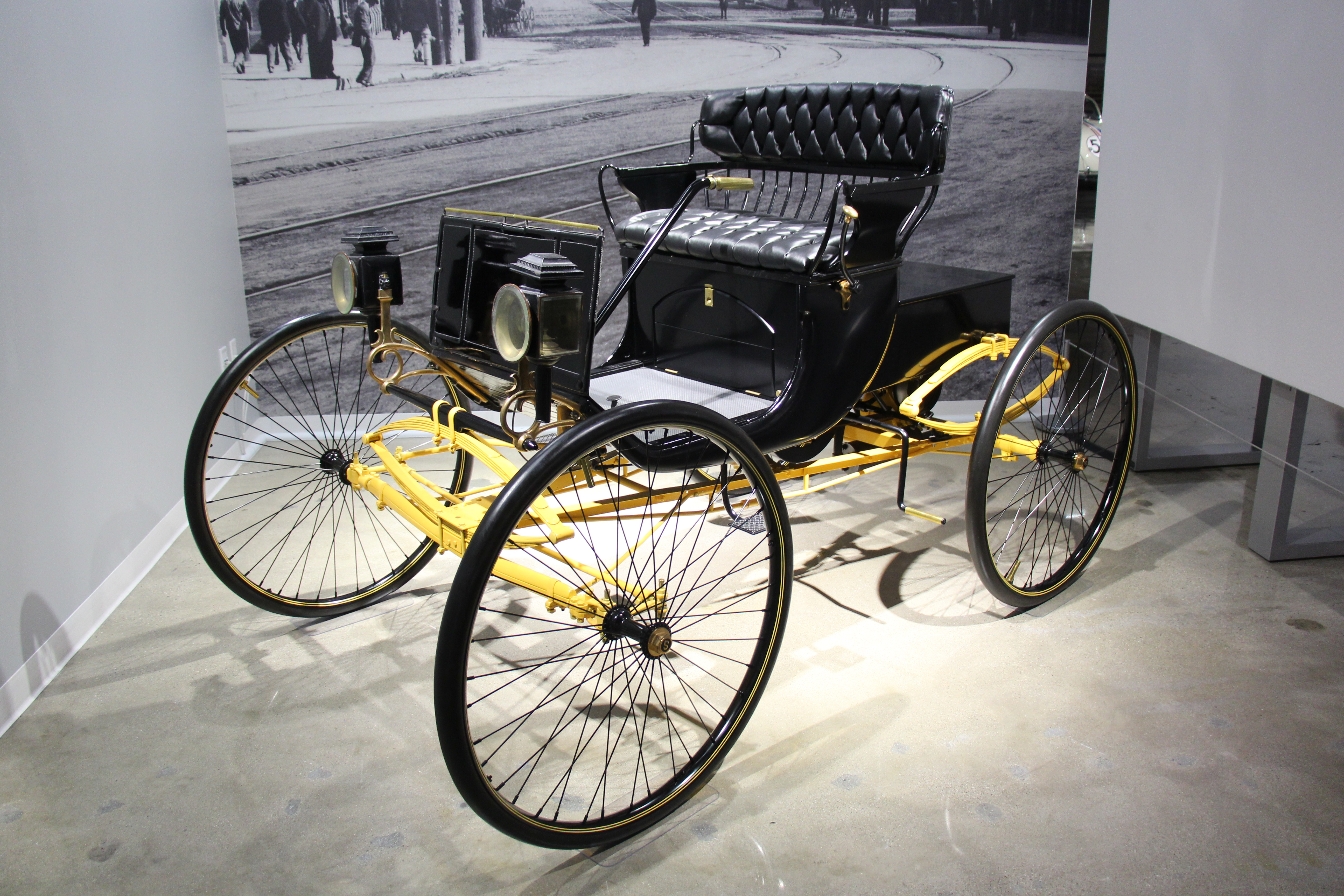 The experimental Smith was built from scratch by brothers Alonzo F. and Reuben Stanley Smith in Los Angeles, California. It was fitted with a two-cylinder, air-cooled engine of the Smiths’ own design and a rudimentary belt and pulley drive system. The elaborate stanchions upon which the headlights were mounted served as attachment points for a horse harness in the event the car became mired in mud or experienced engine failure. The Smith is the oldest surviving gasoline-powered vehicle built in Los Angeles. Photographed at the Petersen Museum